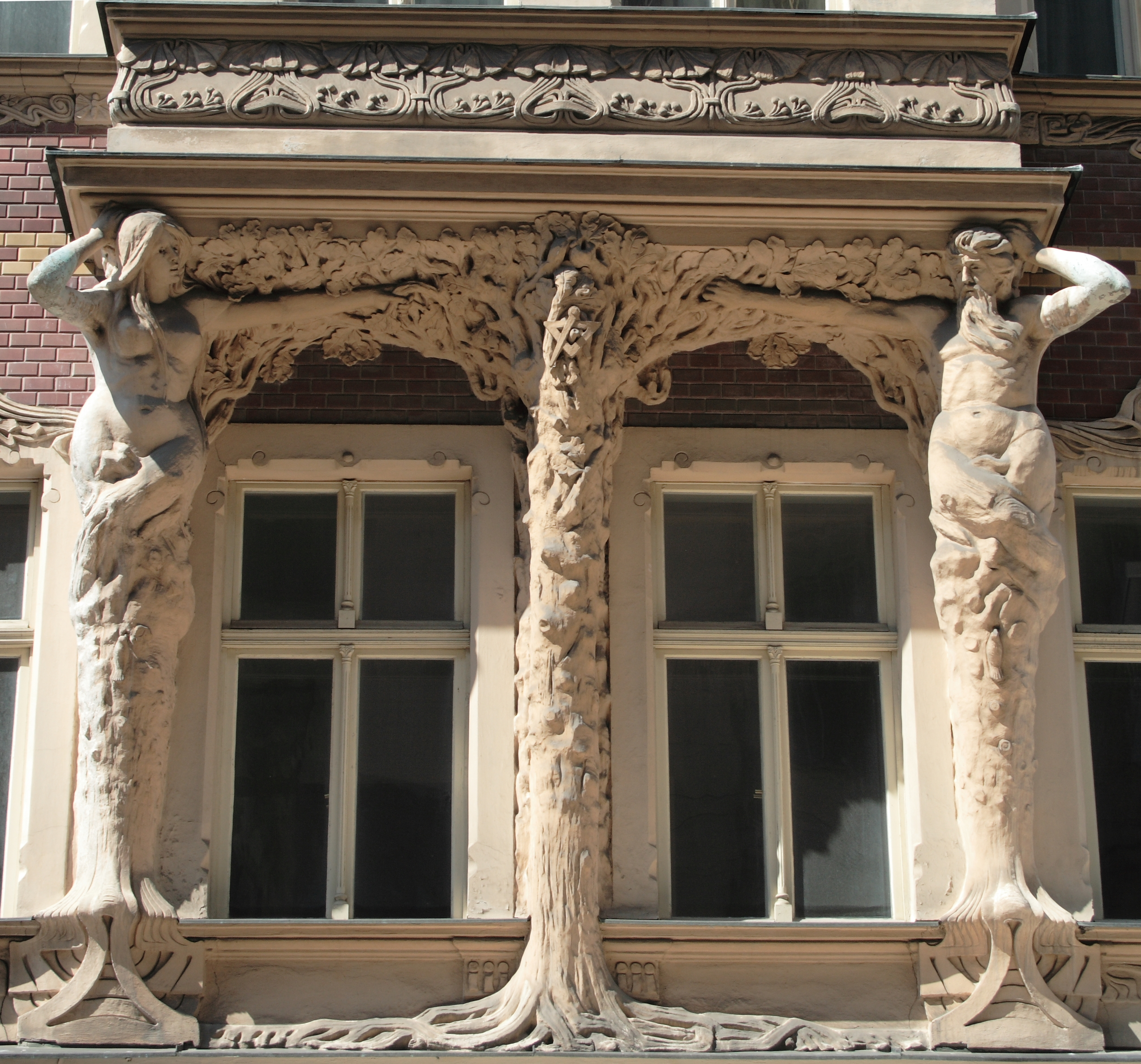 2, Smilšu Street in Riga, Latvia. House in Art Nouveau (1902) by Konstantīns Pēkšēns (1859–1928).